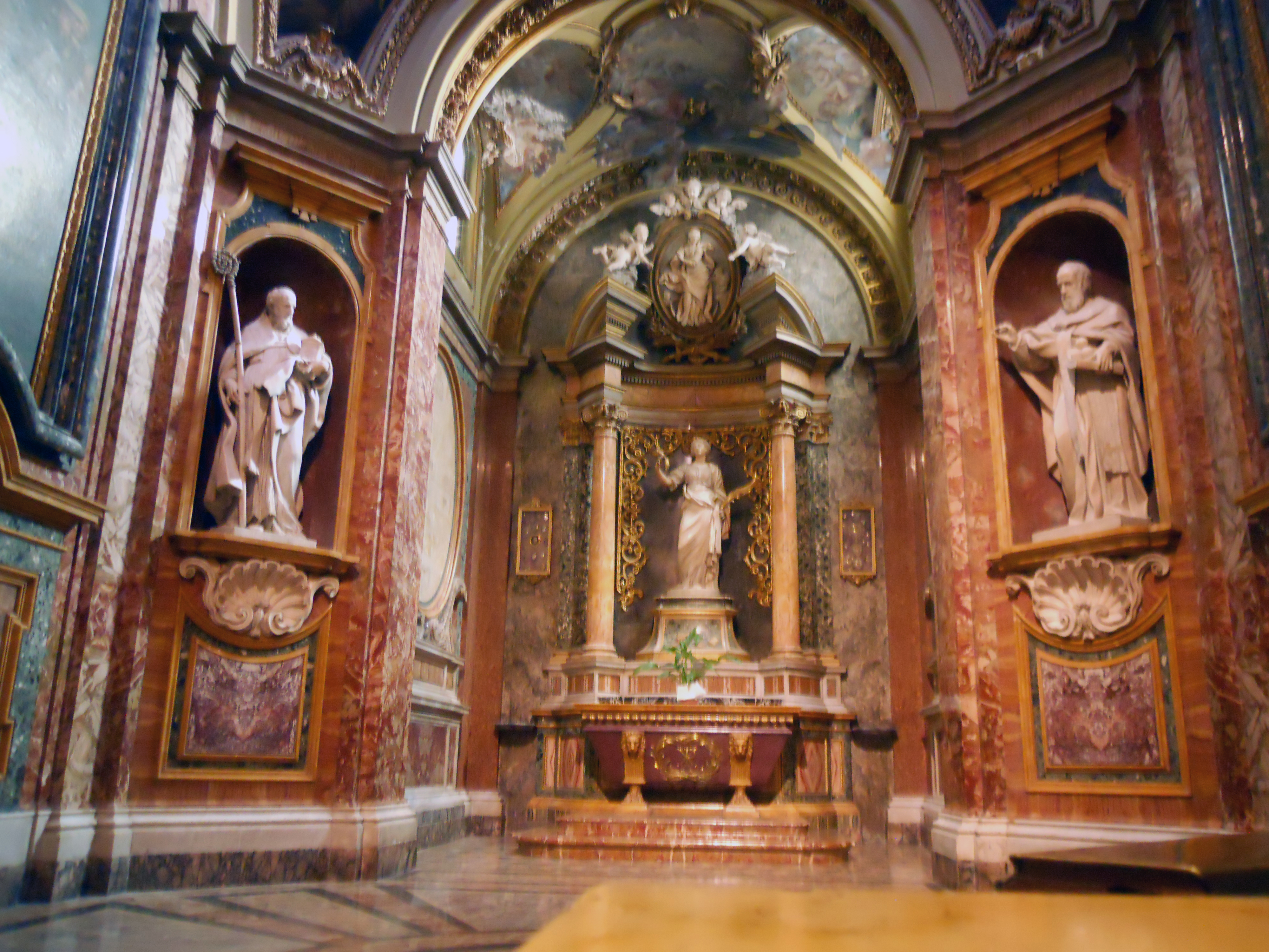 Saint Barbara Chapel - Cathedral of Rieti (Lazio, Italy)